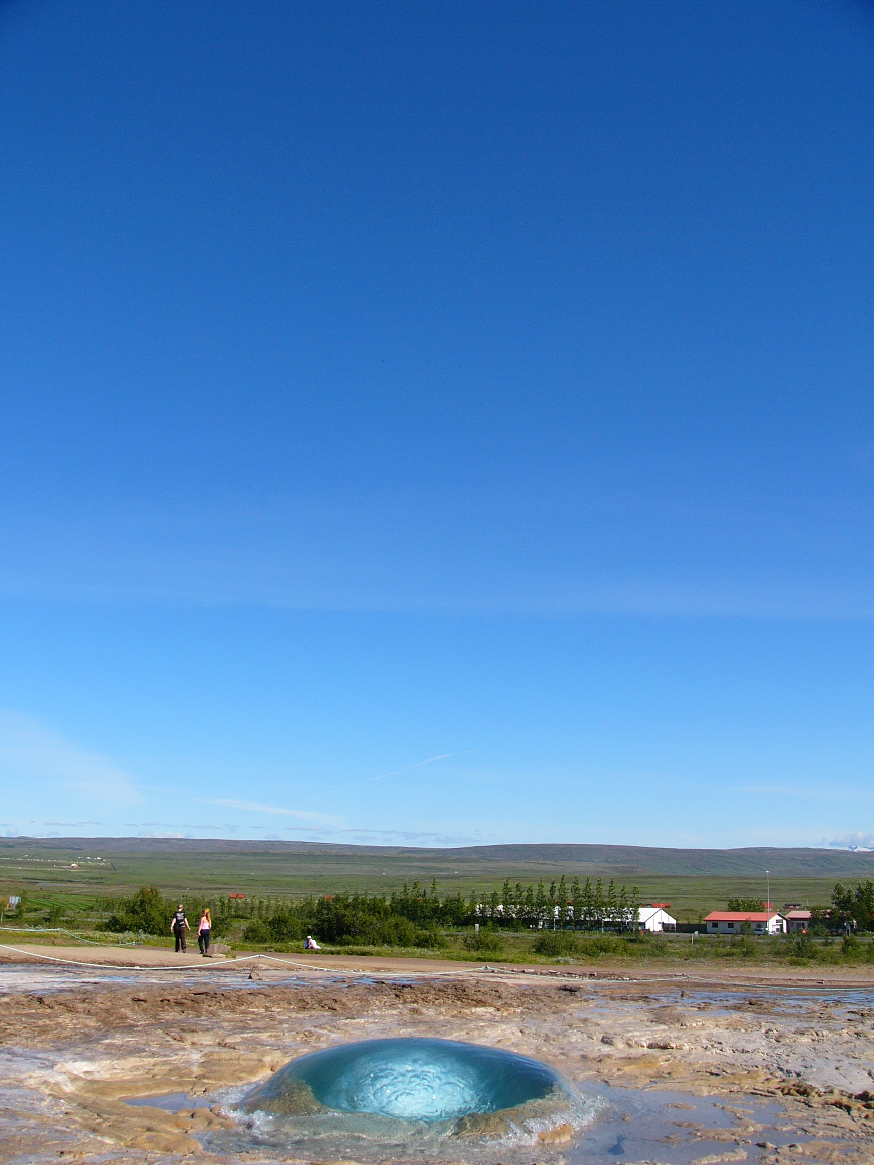 Simon Cole Strokkur, Iceland 24/07/2005